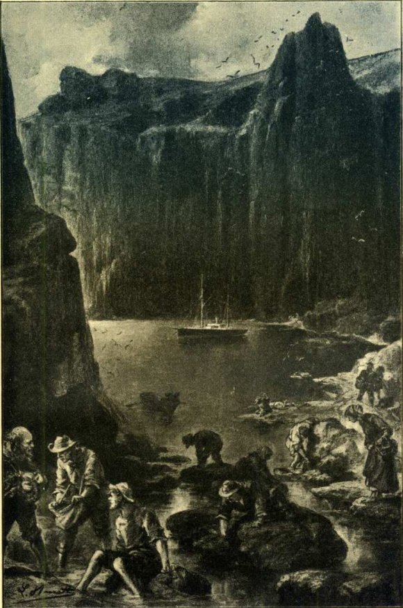 Ilustration by Léon Bennett to Jules Verne story